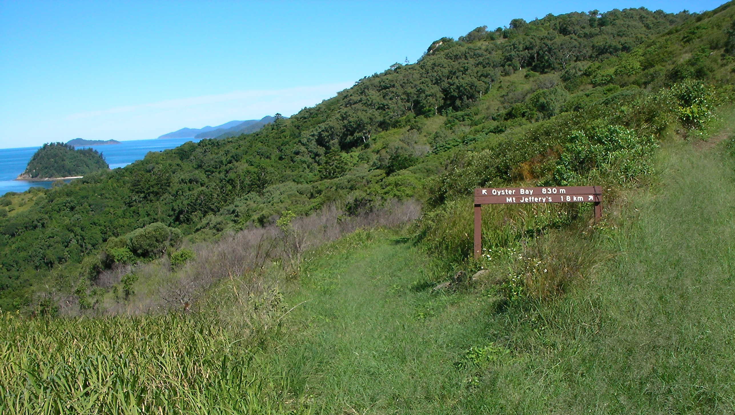 Looking due south while hiking on South Molle Island, Queensland, Australia. Elevation here is 90 meters. "Mount" Jeffries is 200 meters.